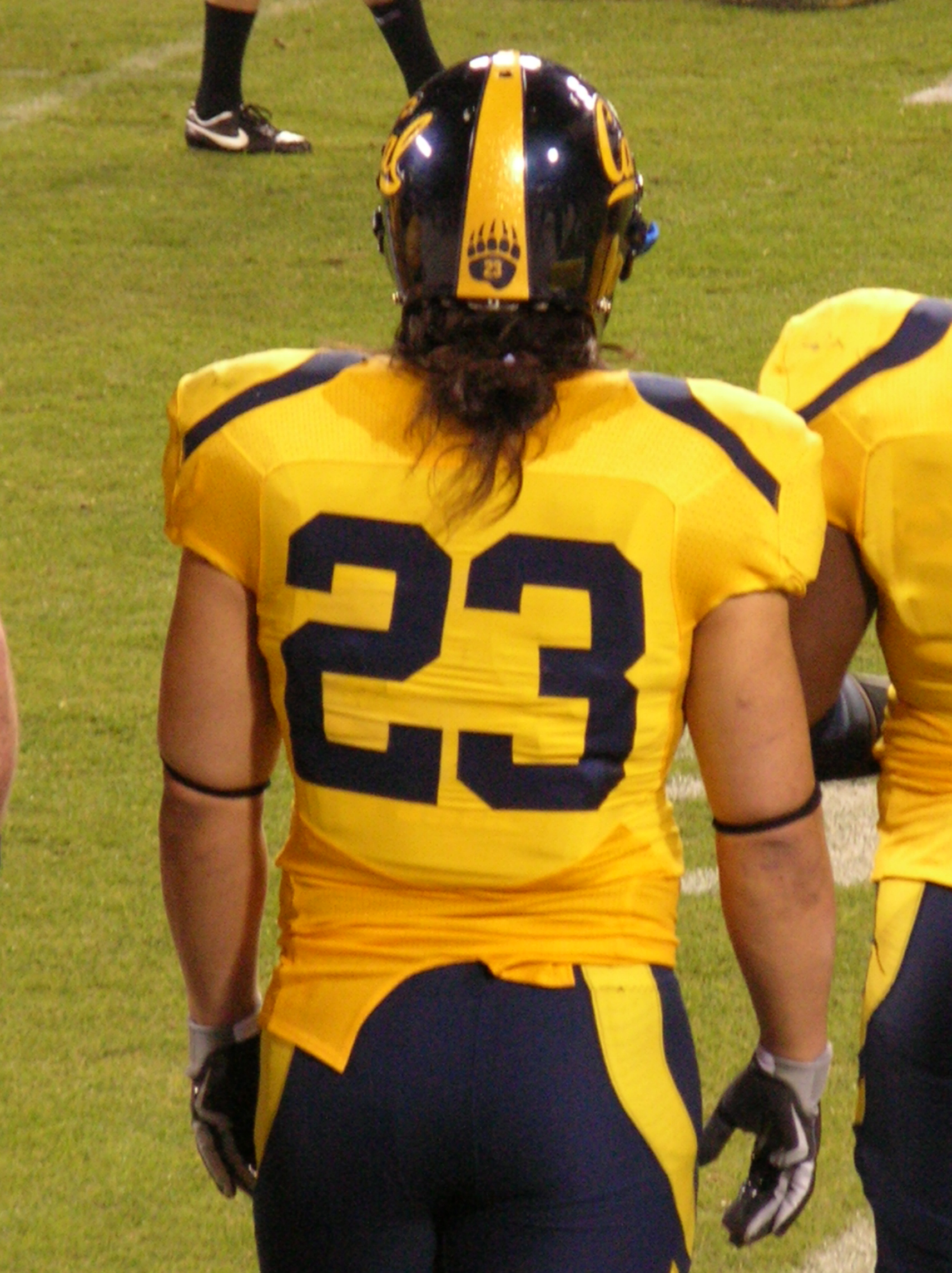 Cal fullback Will Ta'ufo'ou at the 2008 Emerald Bowl between the California Golden Bears and Miami Hurricanes. The Golden Bears won 24-17.